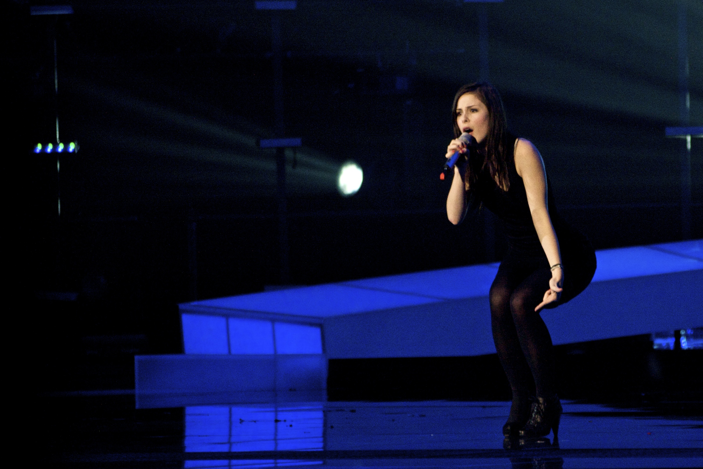 Germany's Eurovision Song Contest participant Lena Meyer-Landrut onstage in the Telenor Arena in Fornebu (during the rehearsals)